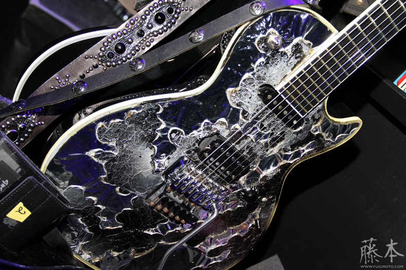 Sugizo's specially made ESP Eclipse S-VIII Brilliant MixedMedia electric guitar at São Paulo/SP - 11/09/2011